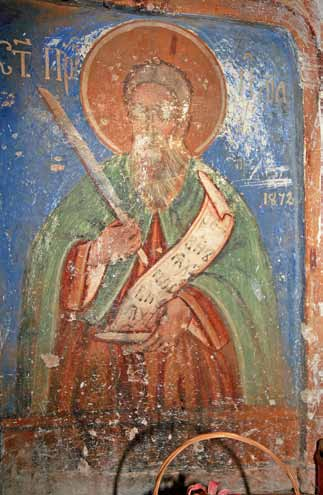 Saint Elijah Church, Bogomila Saint Elijah Fresco